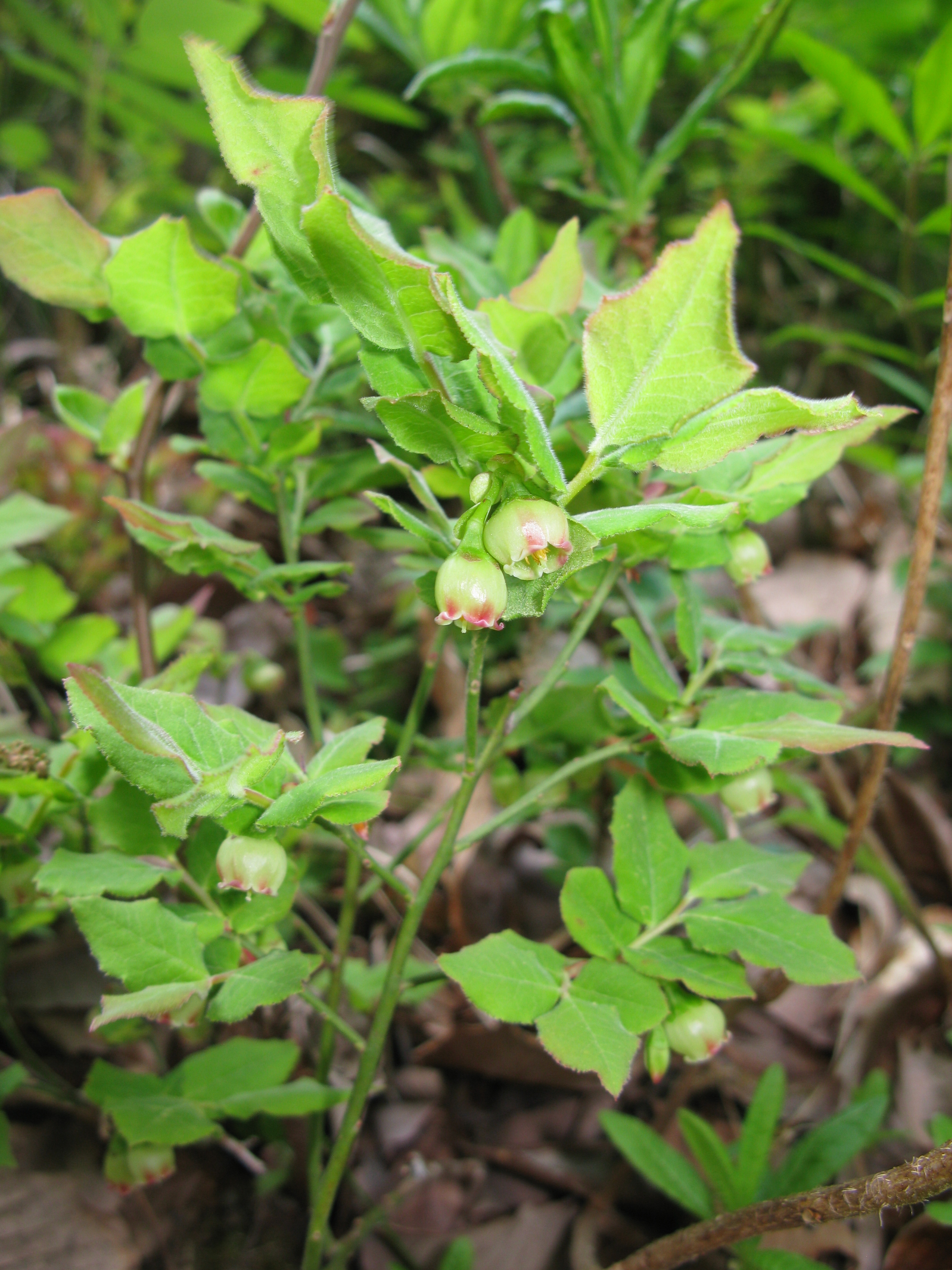 Vaccinium hirtum ,Aizu area, Fukushima pref., Japan